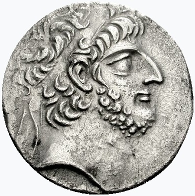 Antiochus XII bust